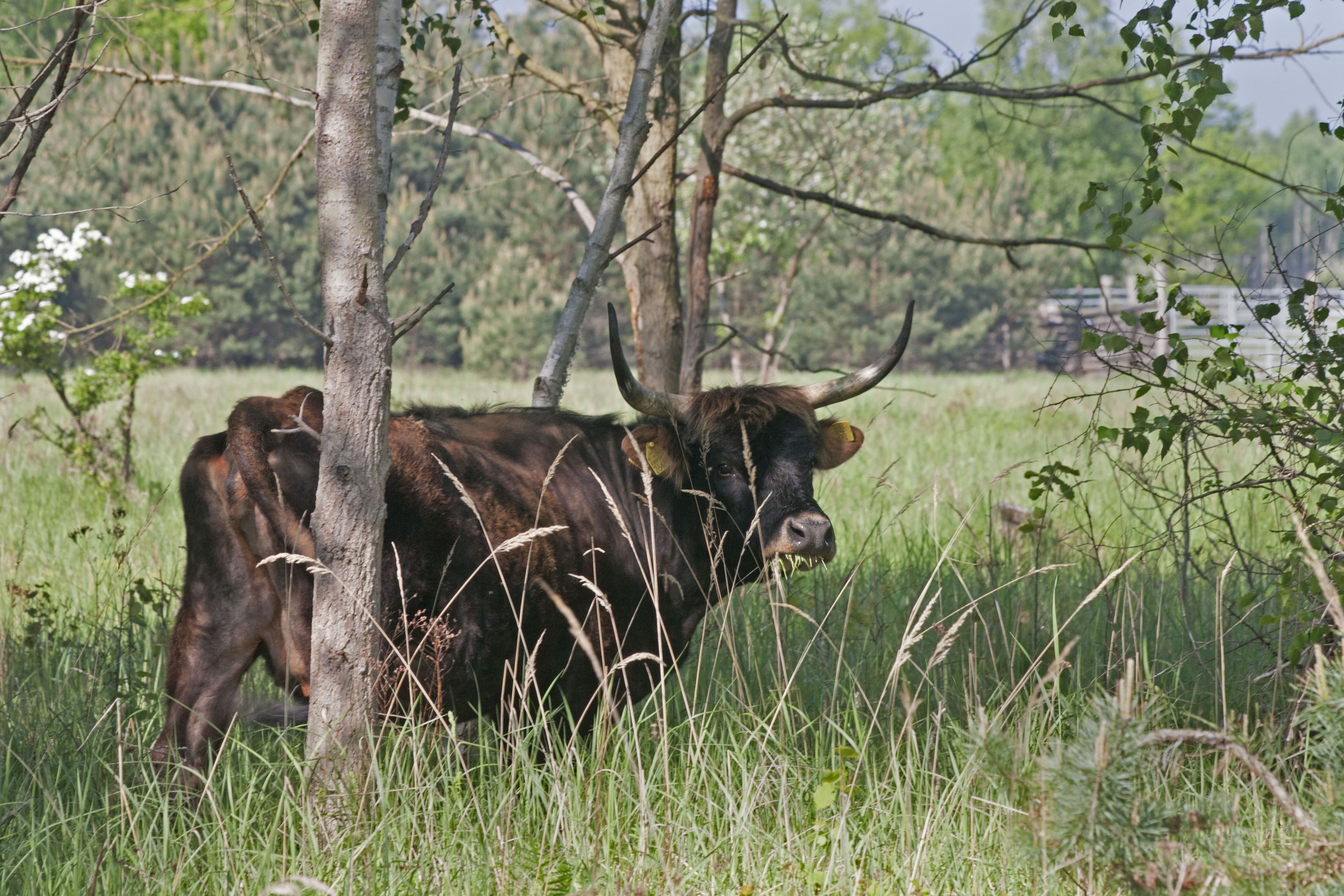 Heck cattle in the nature reserve "Oranienbaumer Heide" (Saxony-Anhalt)